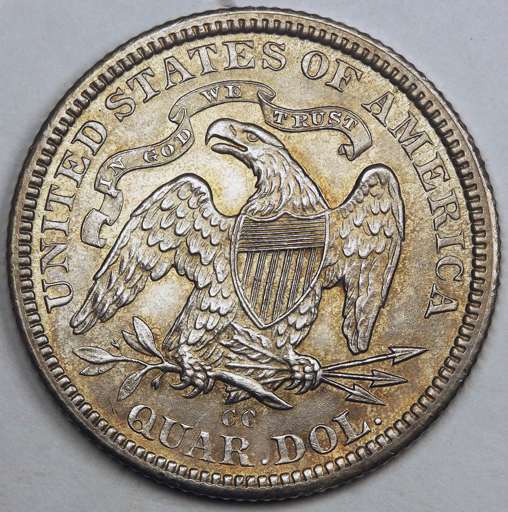 Reverse of 1877-CC quarter